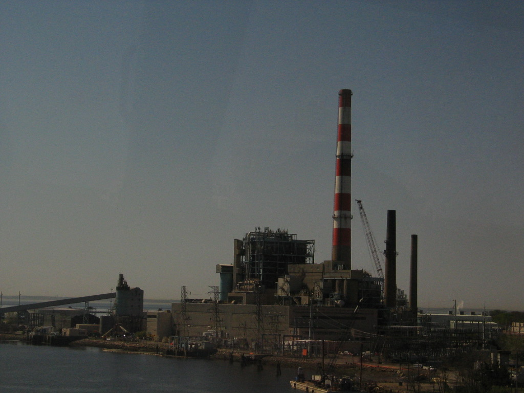 The industrial complex in Bridgeport, CT